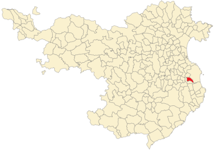 Gualta